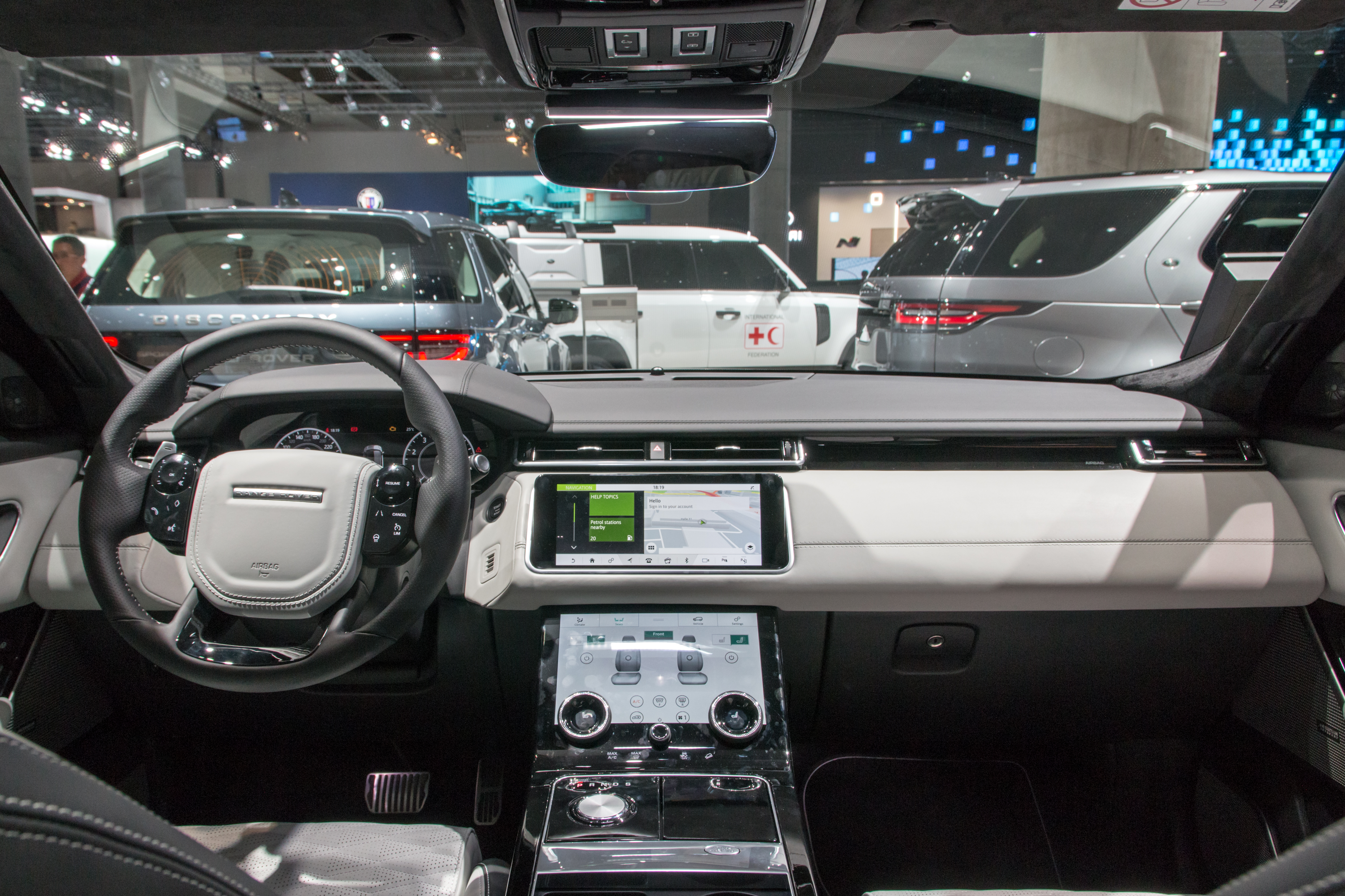 Range Rover Evoque